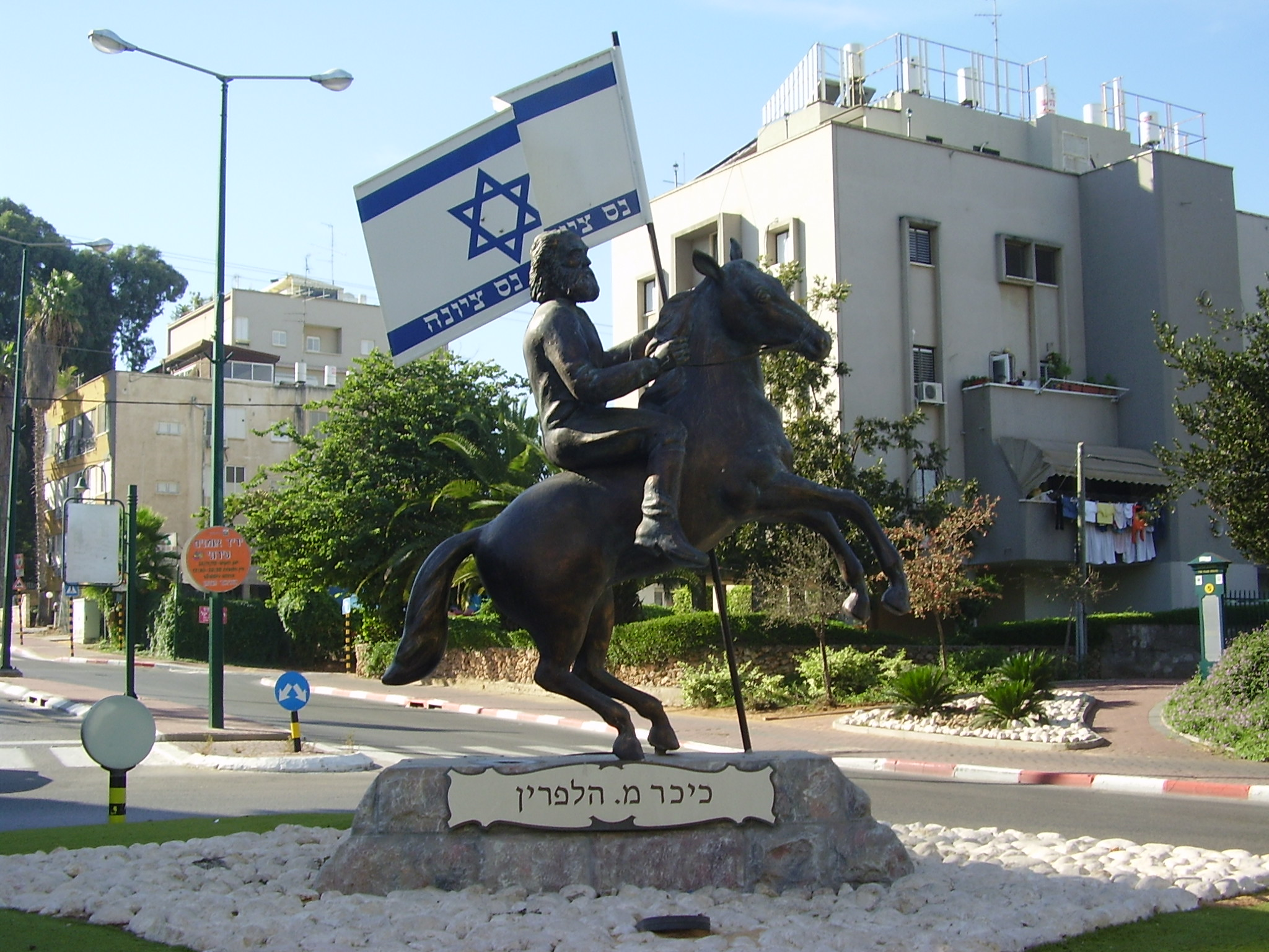 Michael Halperin square in Ness Ziona